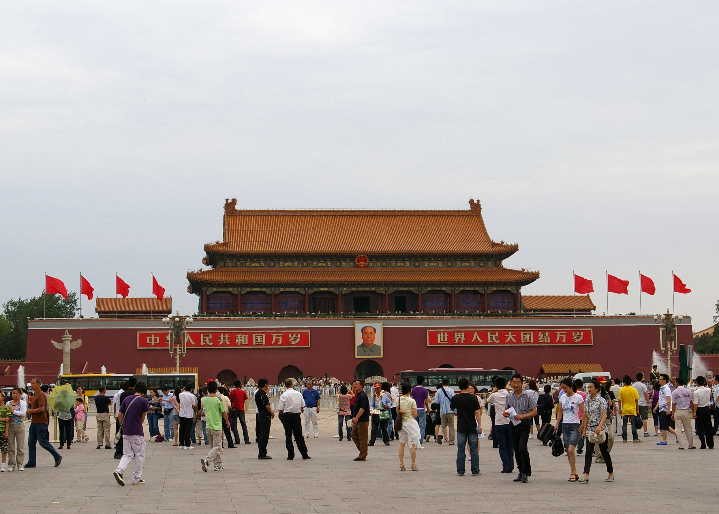 Gate of Heavenly Peace (Tian'anmen) in Beijing